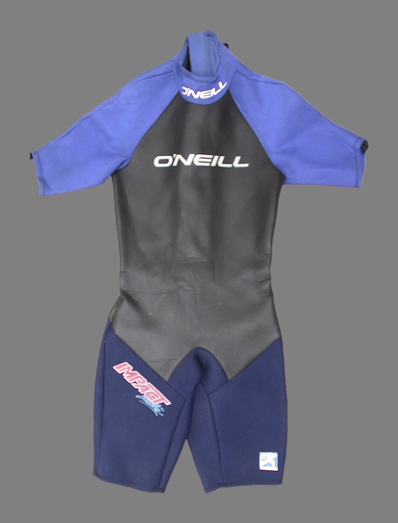 classic shorty wetsuit by O'Neill (around 1995)